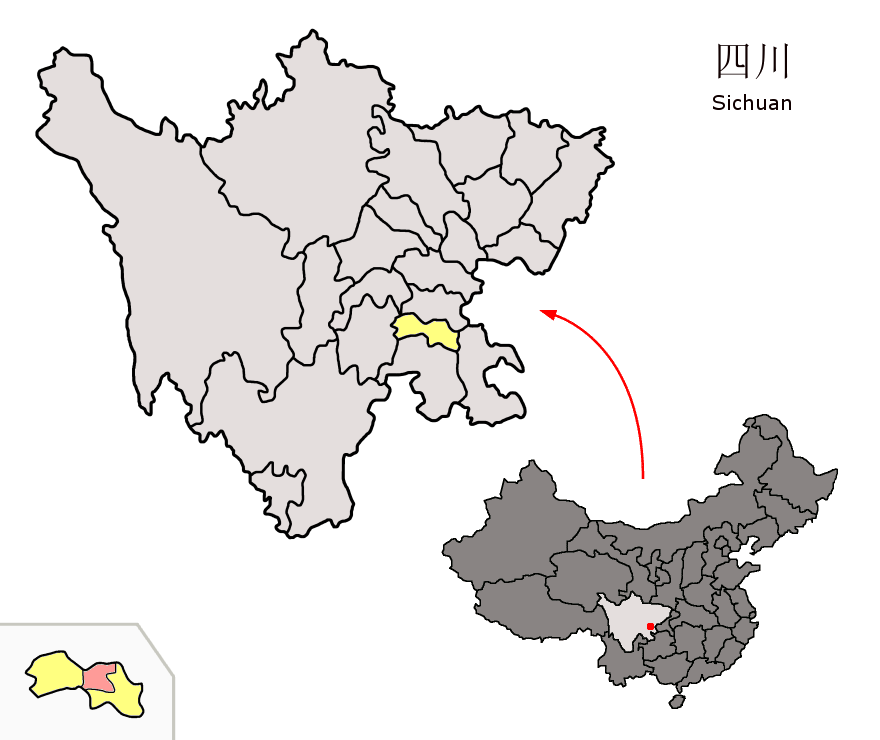 Location of Zigong City Districts (pink) and Zigong Prefecture (yellow) within Sichuan province of China Map drawn in november 2007 using various sources, mainly : Sichuan province administrative regions GIS data: 1:1M, County level, 1990 Sichuan Counties map from